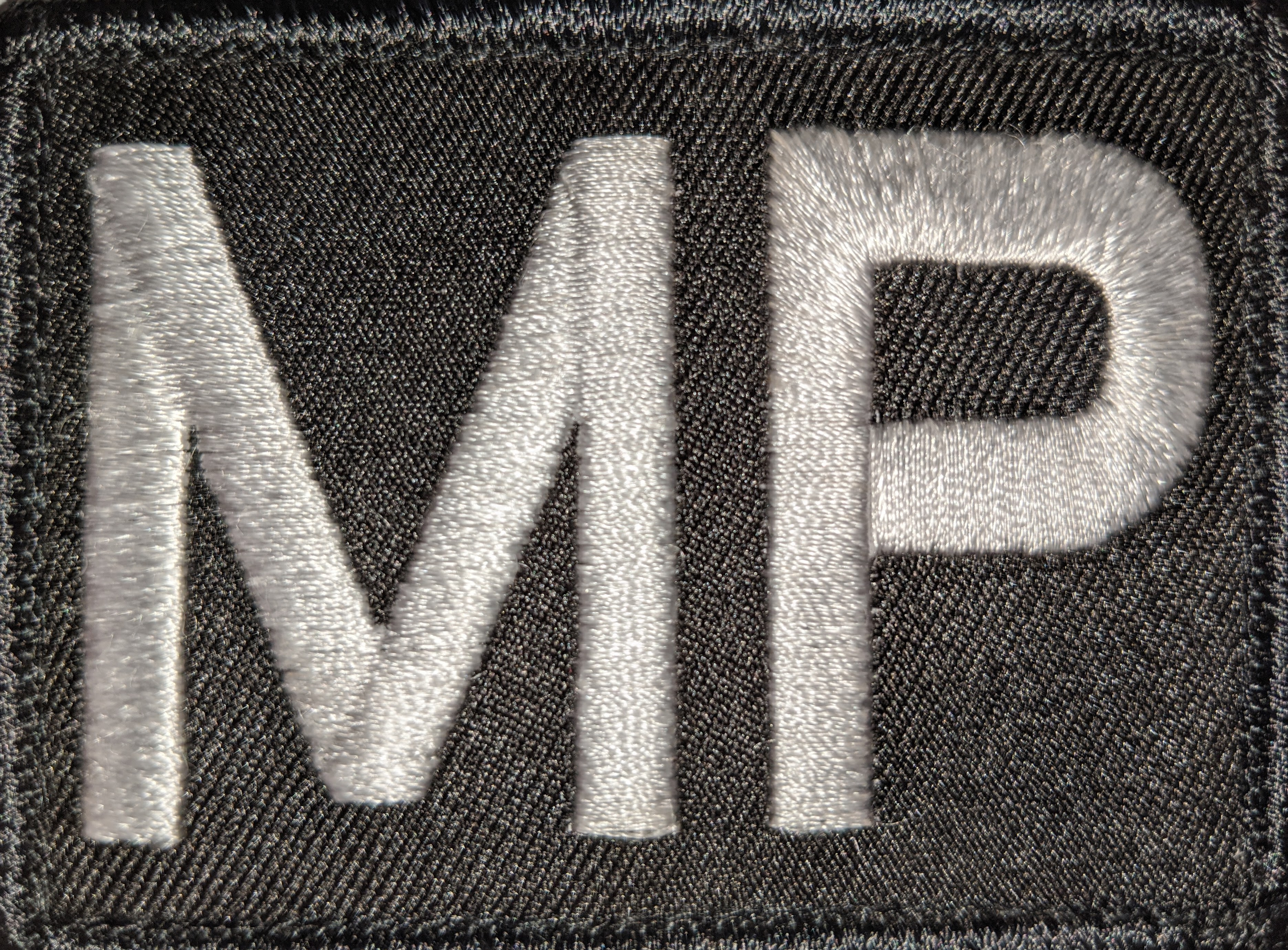 Patch worn by JMPU members (Dress Order No 4A - General Duty Dress - AMCU).